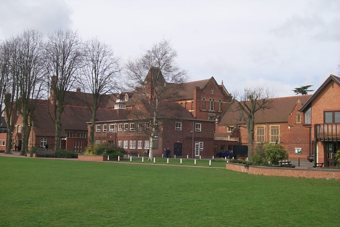 G N Frykman, private photograph